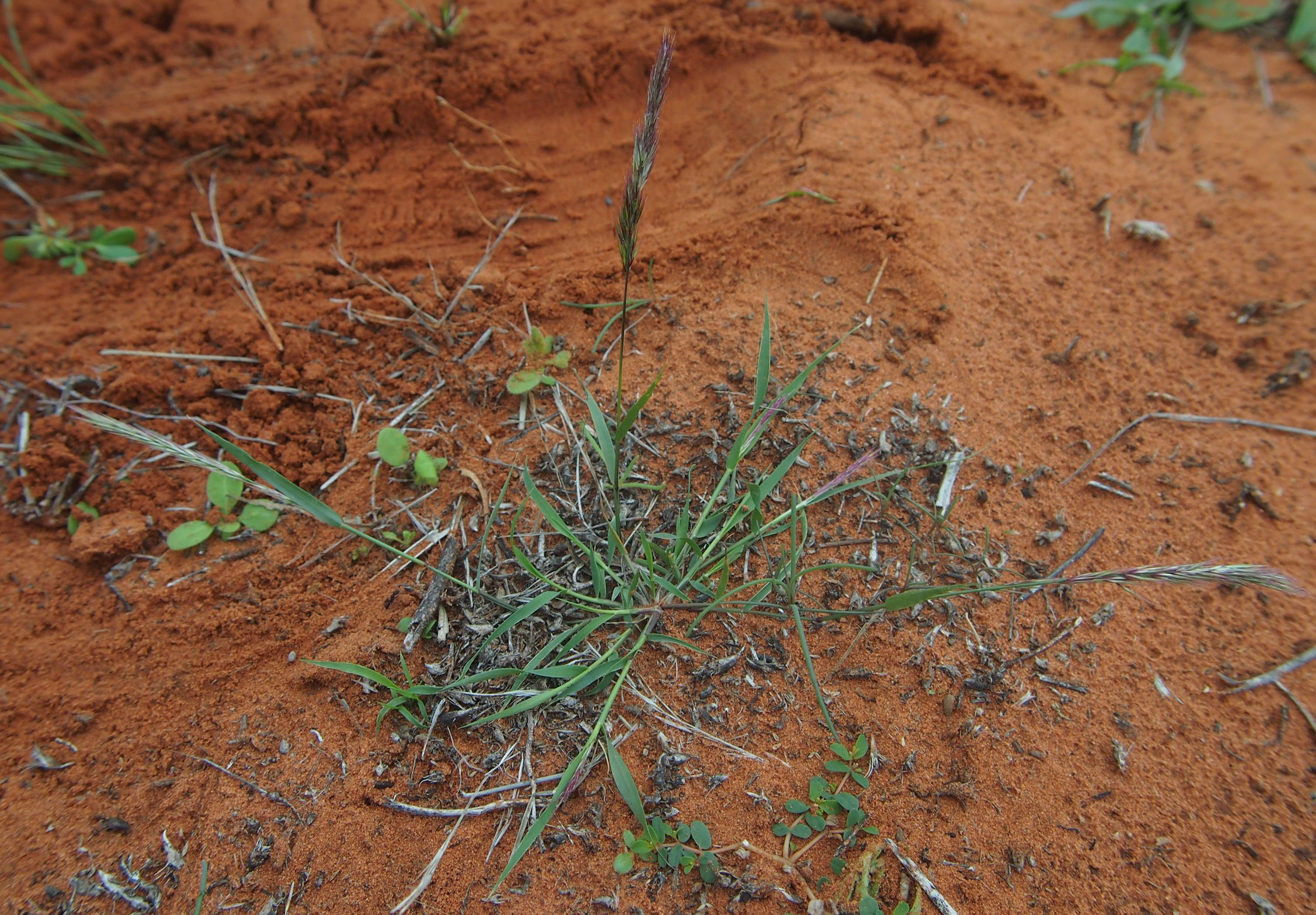 Triraphis mollis habit